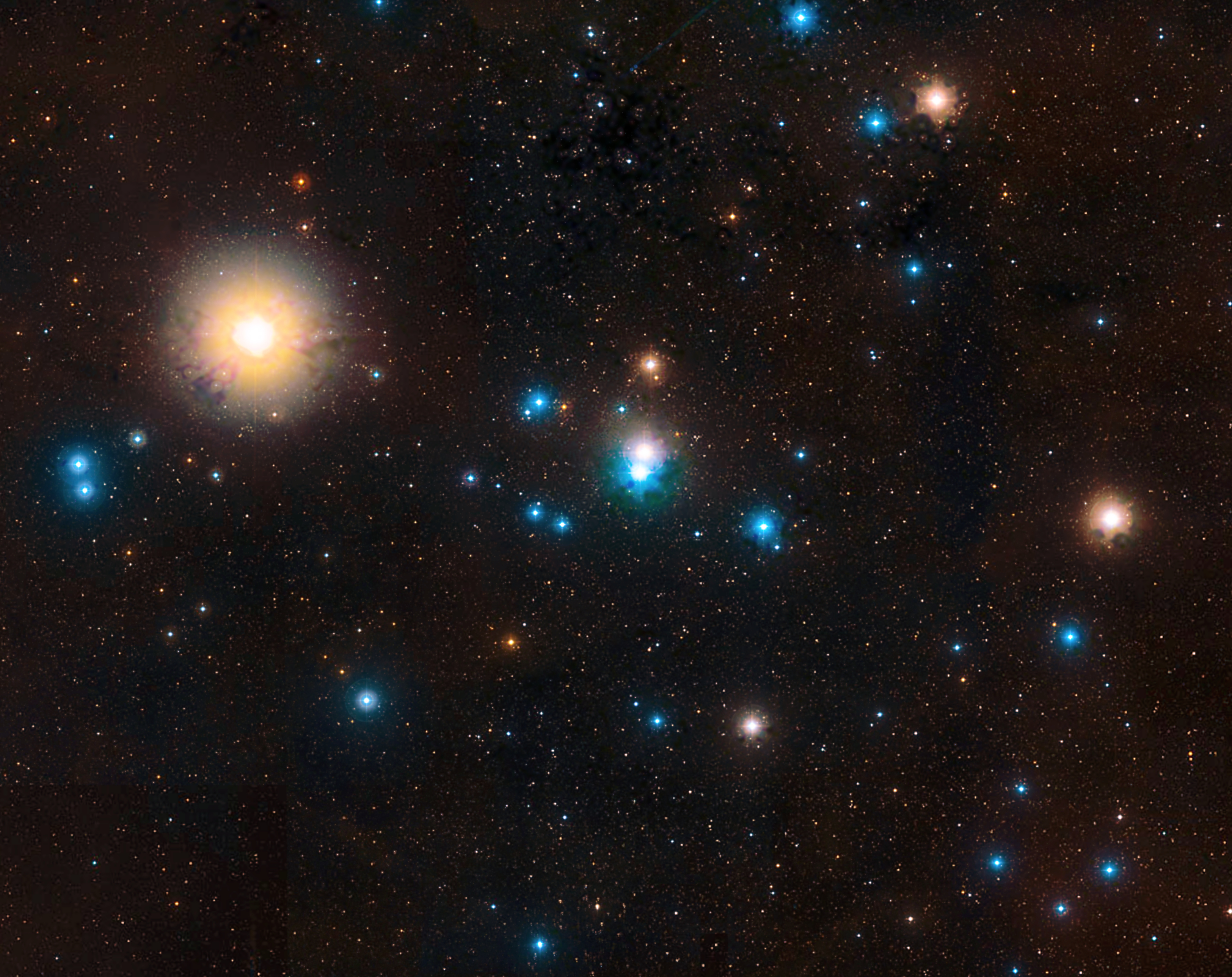 Hyades (star cluster) and Aldebaran Credit: DSS/ Giuseppe Donatiello RA: 4h 27m Dec: +15° 52′ The Hyades, also known as Melotte 25 or Collinder 50, is the nearest open cluster to the Solar System at a distance of ~153 ly (47 pc) to the cluster center. The age of the Hyades is estimated to be about 625 million years. The cluster is part of the constellation Taurus. (J2000) RA: 04h 35m 55.239s Dec: +16° 30′ 33.49″ Mag: 0.75-0.95 Aldebaran (α Tau, α Tauri, Alpha Tauri) is an orange giant star located about 65 light years and is unrelated to the Hyades, as it is located much closer to Earth.